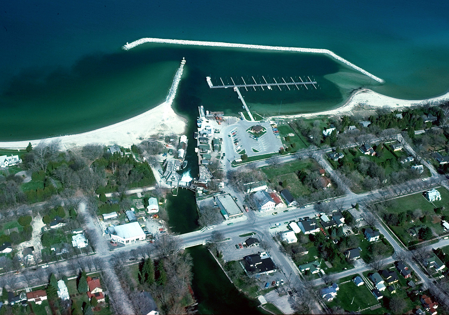 Aerial view of the shore and breakwater on Lake Michigan at Leland, Michigan, USA. The U.S. Army Corps of Engineers constructed the harbor and breakwater at the town.